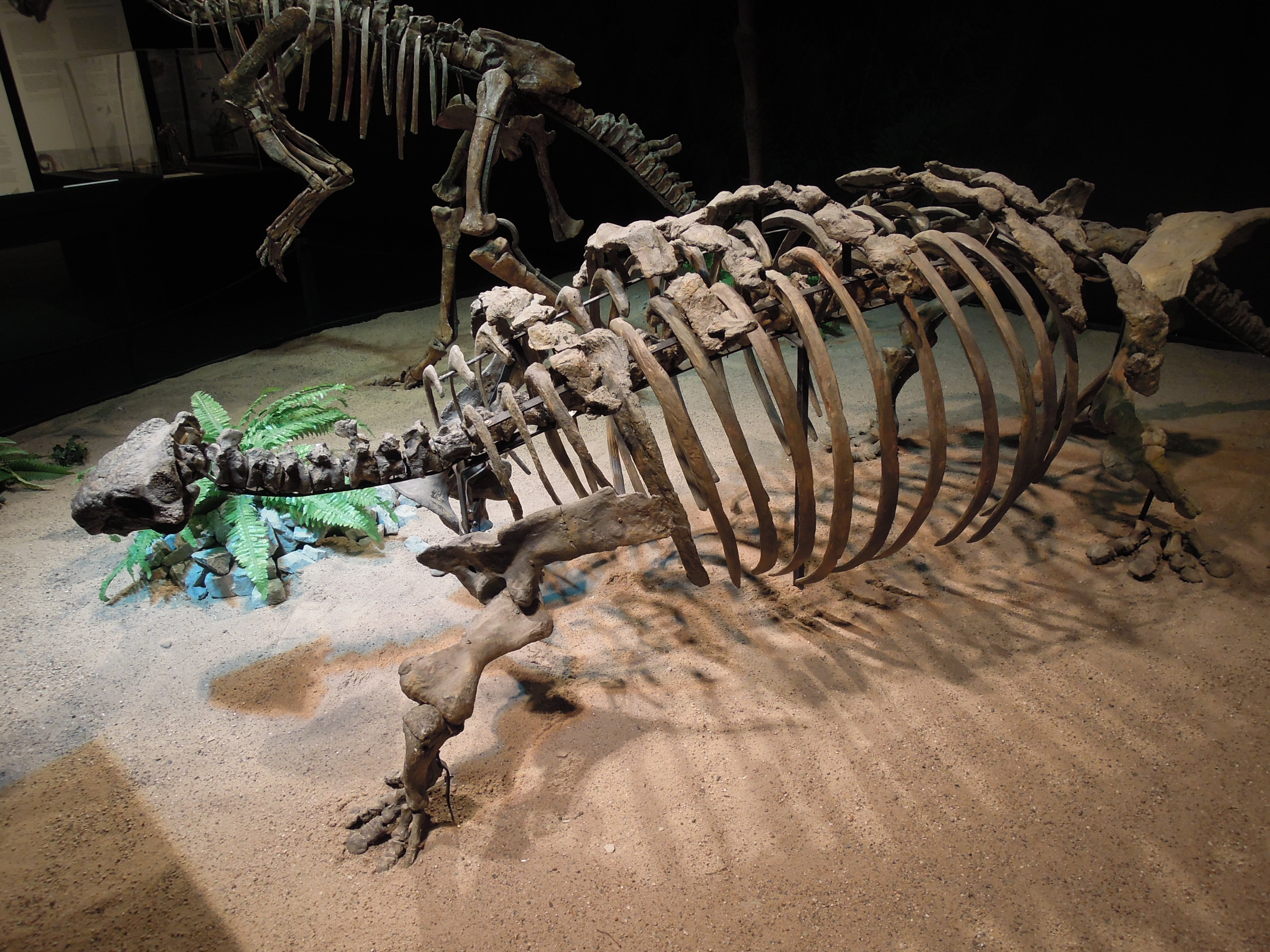 Talarurus plicatospineus, Dinosaurium exhibition, Prague, Czech Republic